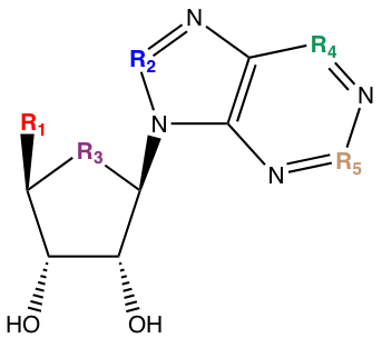 picture 31